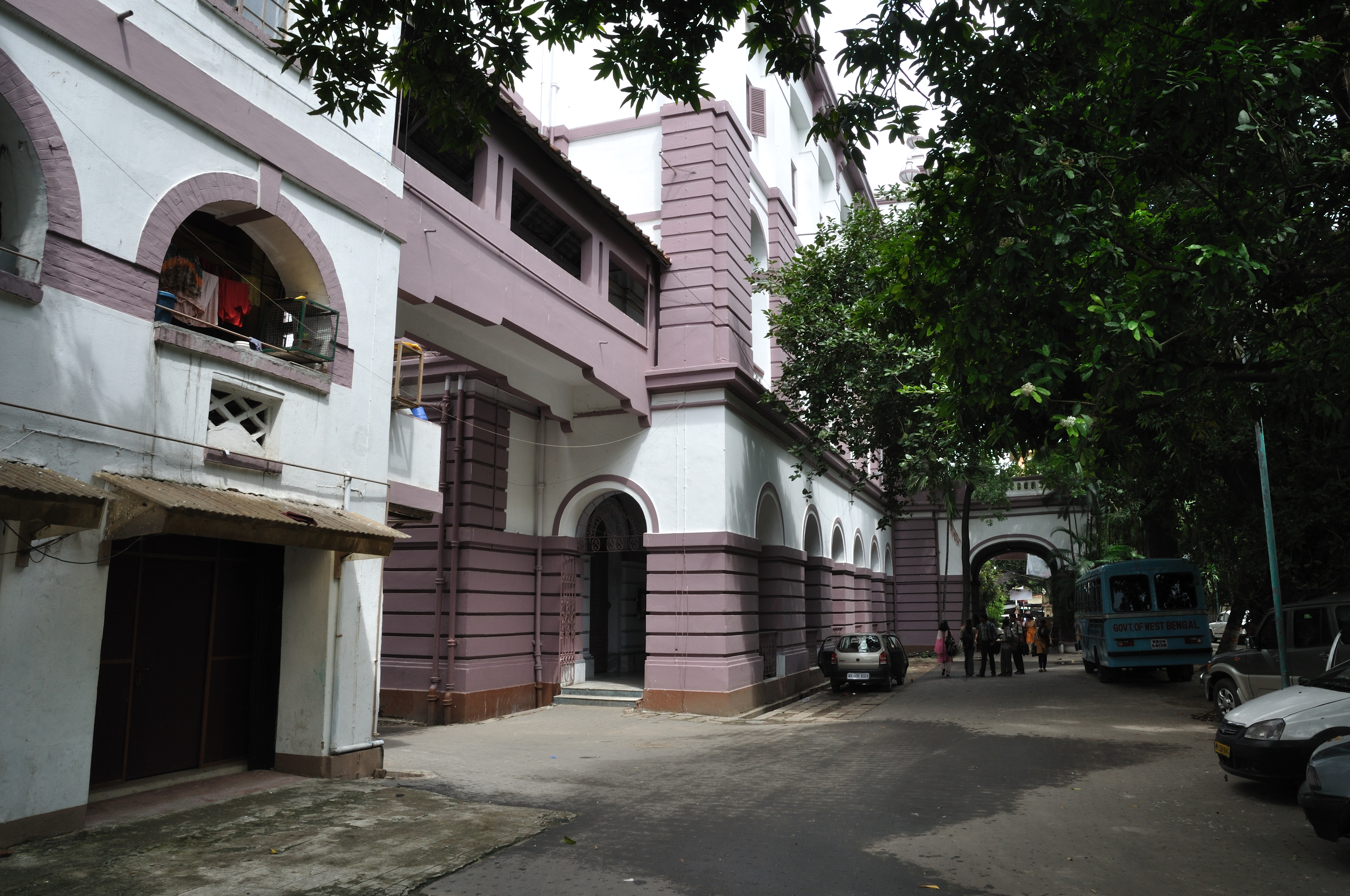 Presidency University, Kolkata (earlier Hindu College and Presidency College) is a unitary, state aided university, located in Kolkata, West Bengal. Established in 1817, it is the oldest educational institution in India.